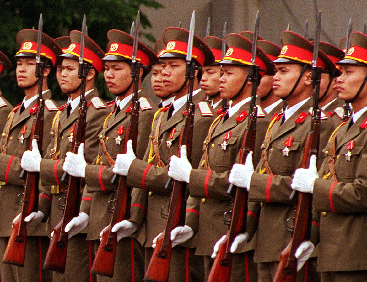 Soldiers of the Vietnam People's Army.